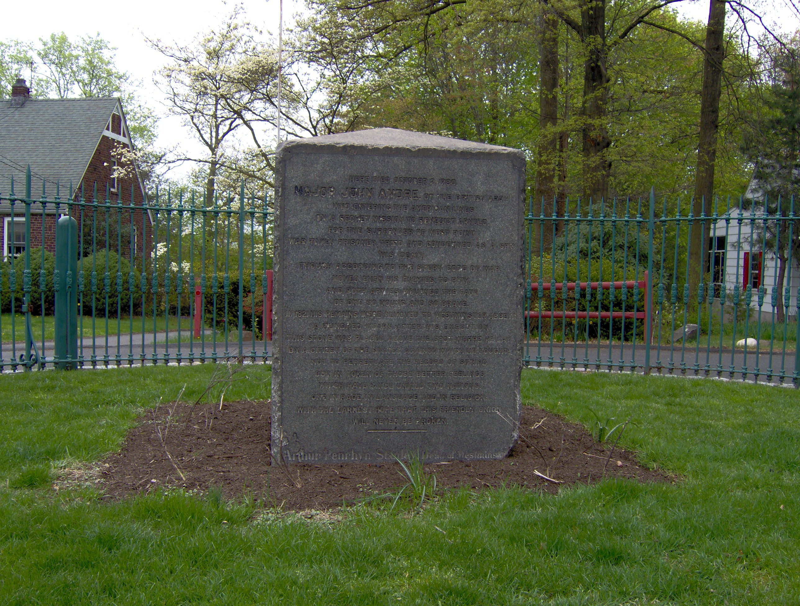 I took the picture myself today. Anyone can use the picture for any reason. Text of the inscription: (some punctuation illegible; may not be accurate) HERE DIED OCTOBER 2, 1780. MAJOR JOHN ANDRE, OF THE BRITISH ARMY WHO ENTERED THE AMERICAN LINES ON A SECRET MISSION TO BENEDICT ARNOLD FOR THE SURRENDER OF WEST POINT, WAS TAKEN PRISONER TRIED AND CONDEMNED AS A SPY. HIS DEATH THOUGH ACCORDING TO THE STERN CODE OF WAR MOVED EVEN HIS ENEMIES TO PITY, AND BOTH ARMIES MOURNED THE FATE OF ONE SO YOUNG AND BRAVE. IN 1821 HIS REMAINS WERE REMOVED TO WESTMINSTER ABBEY, A HUNDRED YEARS AFTER HIS EXECUTION. THIS STONE WAS PLACED ABOVE THE SPOT WHERE HE LAY, NOT TO PERPETUATE THE RECORD OF STRIFE BUT IN TOKEN OF THOSE BETTER FEELINGS WHICH HAVE SINCE UNITED THE NATIONS ONE IN RACE, IN LANGUAGE AND IN RELIGION, WITH THE EARNEST HOPE THAT THIS FRIENDLY UNION WILL NEVER BE BROKEN. Arthur Penrhyn Stanley, Dean of Westminster